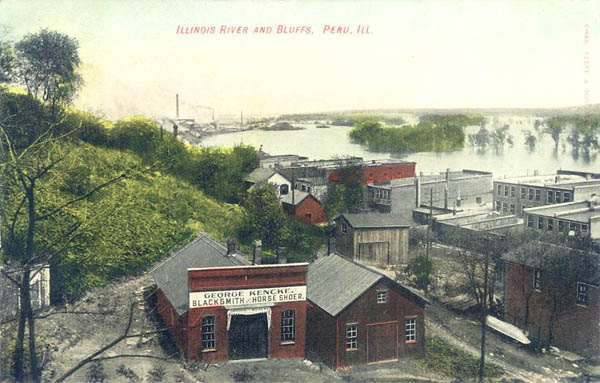 George Kencke Blacksmith Shop on the bluffs of the Illinois River Valley in Peru Illinois. Below the bluff is the former Water Street commercial district and the smokestacks of the Illinois Valley Zinc Company in the distance.